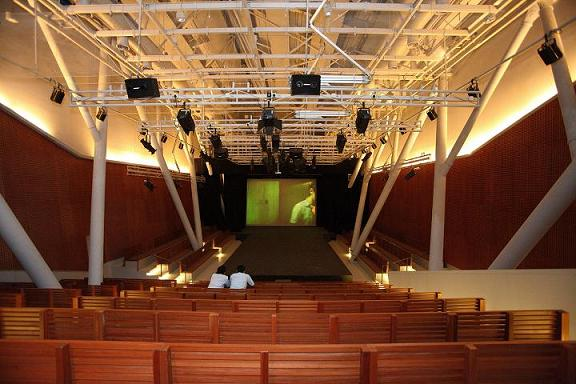 a view of the 192 seater Actors Studio Theater in Lot 10